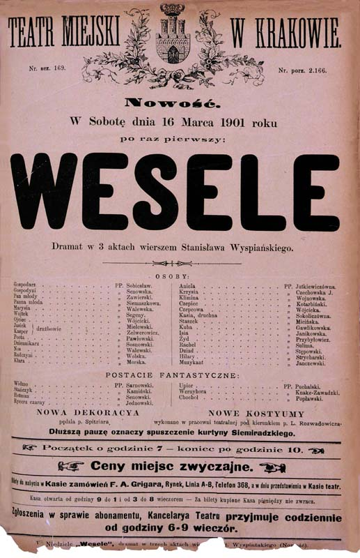 Theatre poster to Wesele's preview (1901)